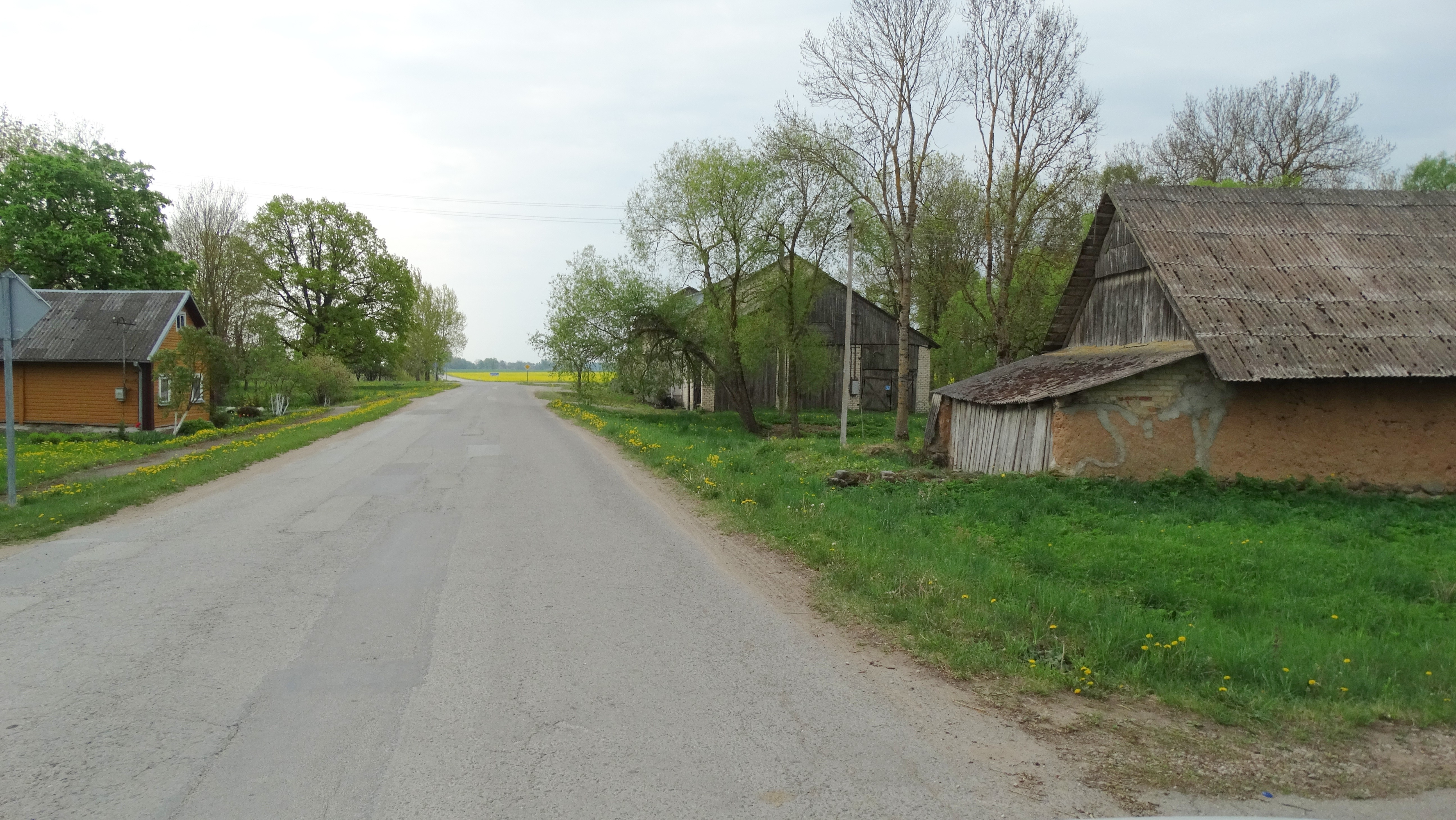 Gačioniai, Pakruojis district, Lithuania